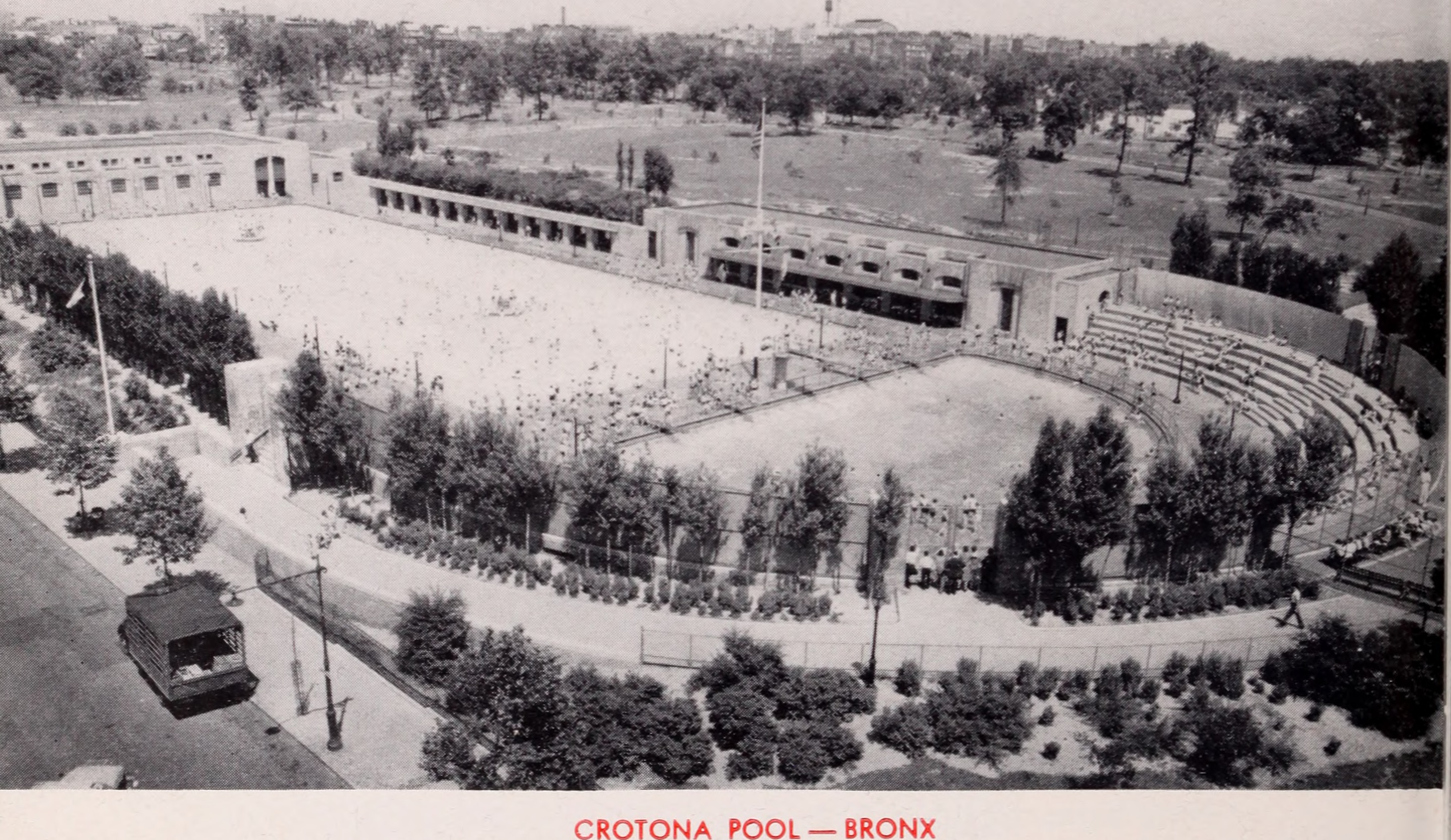 Title: 30 years of progress, 1934-1964 : Department of Parks : 300th anniversary of the City of New York : New York World's Fair. Year: 1964 (1960s) Authors: New York (N. Y. ). Department of Parks. Subjects: New York World's Fair (1964-1965 : New York, N. Y. ); Playgrounds Publisher: (New York?) : (publisher not identified) Text Appearing Before Image: swimming pools For those who dwell in the heavily congested areas of our city, well removed from ocean beaches, there are seventeen large modern outdoor swimming pools which are intensely used during the high temperature periods of the summer season. Thousands of children and adults have participated in Learn-to-Swim classes and in life-saving techniques and water safety. Text Appearing After Image: Astoria Pool, site of the 1936 American Olympic finals in swimming, diving and water polo prior to the games in Berlin, Germany, again played host in 1964 to the top swimmers, divers and water poloists from the United States. In the late fall, winter and spring, twelve indoor swimming pools serve the needs of schools, clubs and neighborhood participants who en- joy swimming throughout the year. An innovation in swimming pool design is the combination swim- ming pool and ice skating rink which is being constructed in the Harlem Meer section of Central Park. This dual operation will feature cascading 40